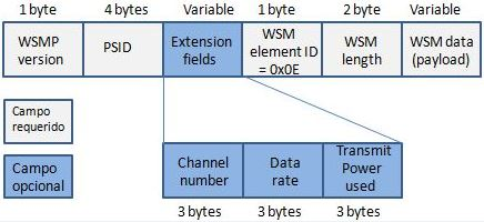 Formato WSMP